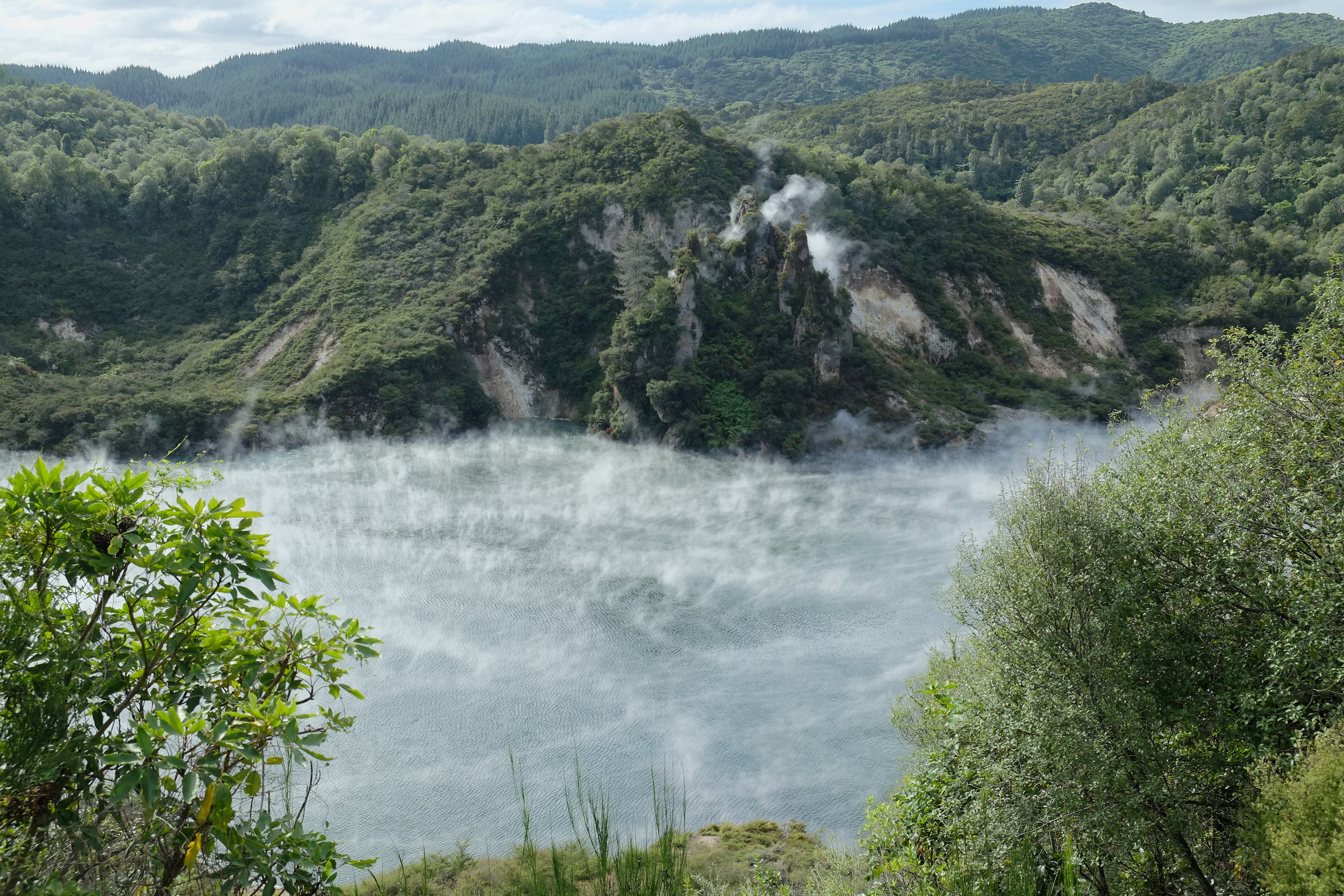 View over Frying Pan Lake in Waimangu Volcanic Valley